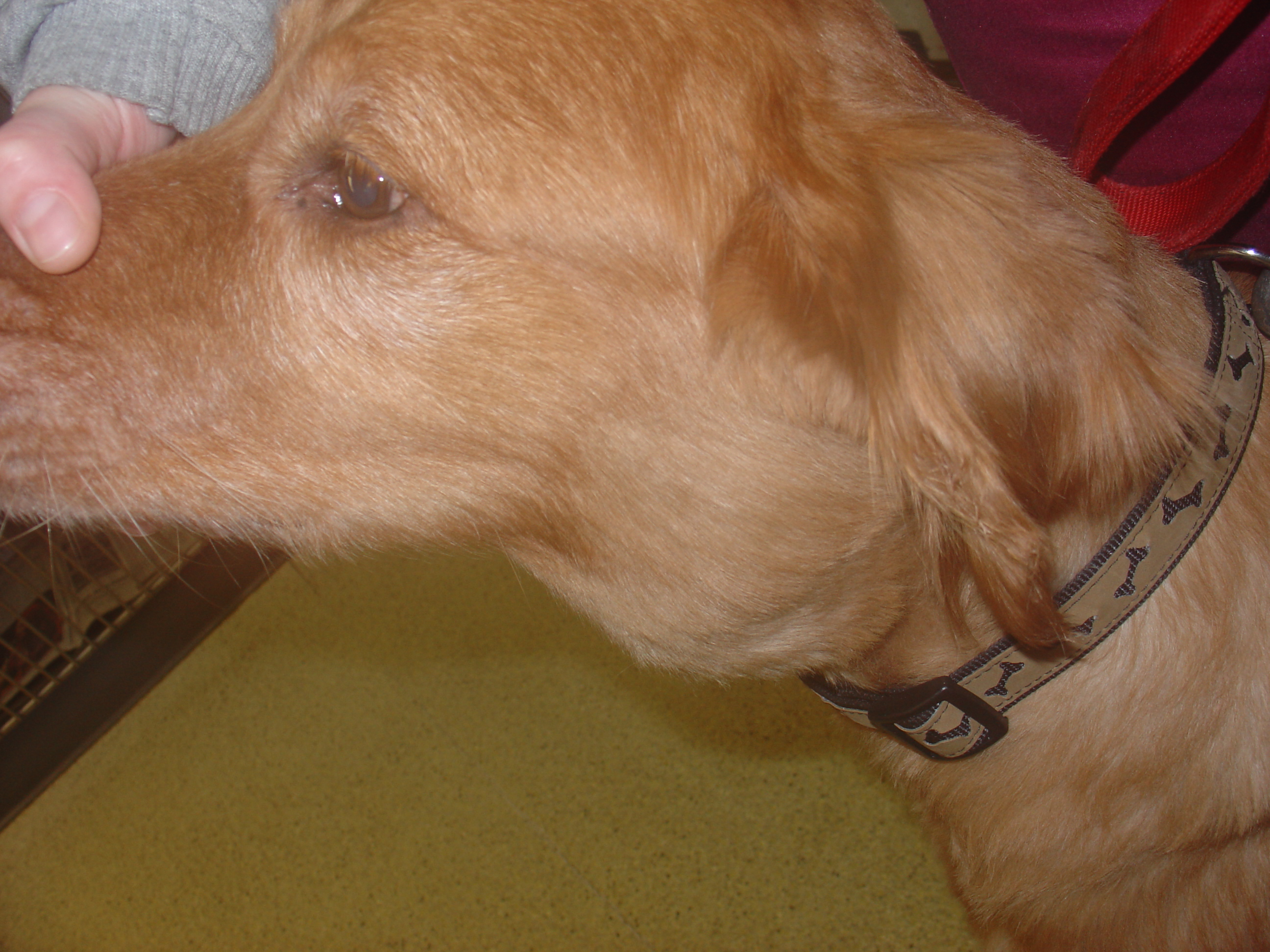 This is a 12 year old Golden Retriever with lymphoma. The left submandibular lymph node is swollen.